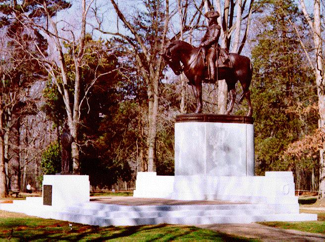 I took this photo of the Nathaniel Nathanael Greene Statue at Greensboro, NC, ca. 1990. It had been undergoing a restoration, and the words had not been restored to the pedestal.